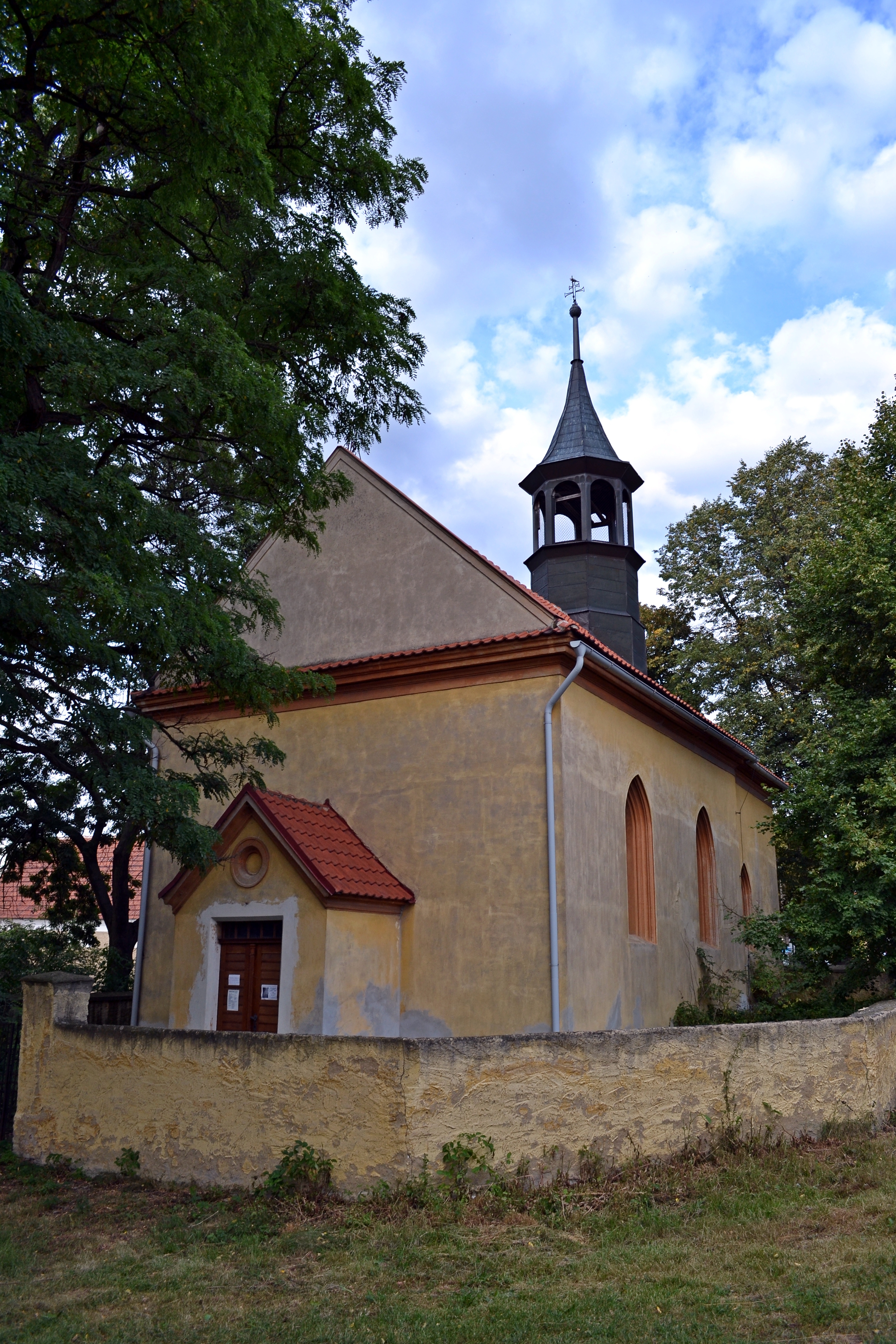 St. Michael church in the village Svrkyně, Central Bohemian Region, Czech Republic.